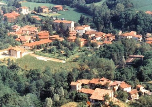 Comune di Molteno. Italy.